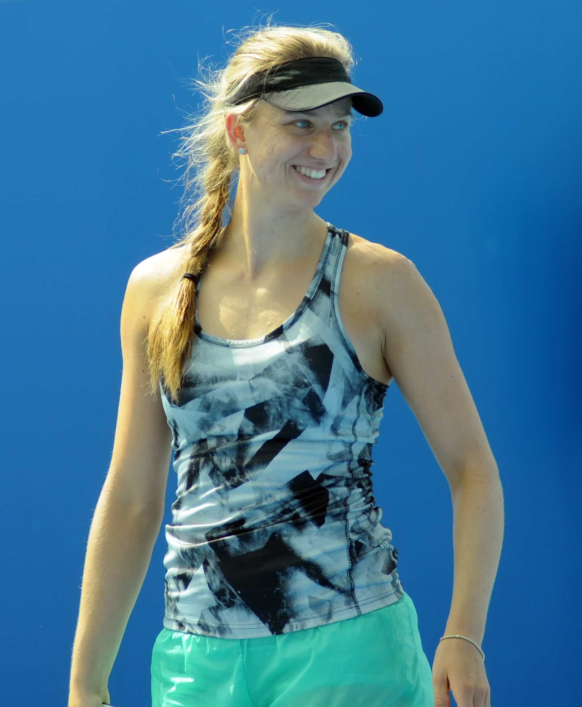 Mona Barthel at the 2014 China Open